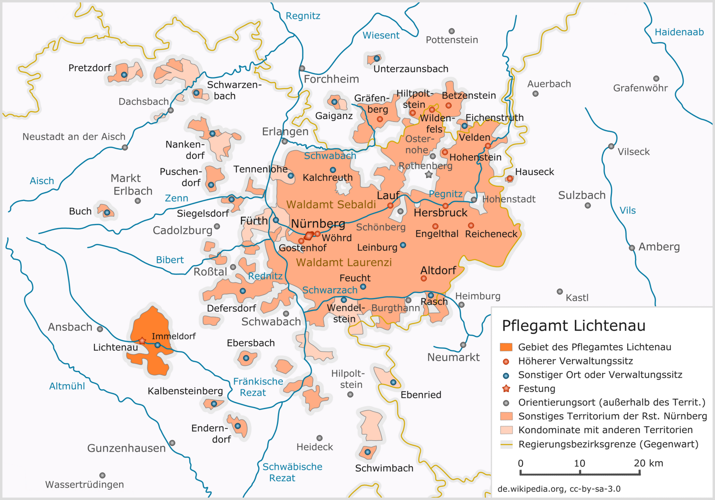 Map of the Pflegamt Lichtenau